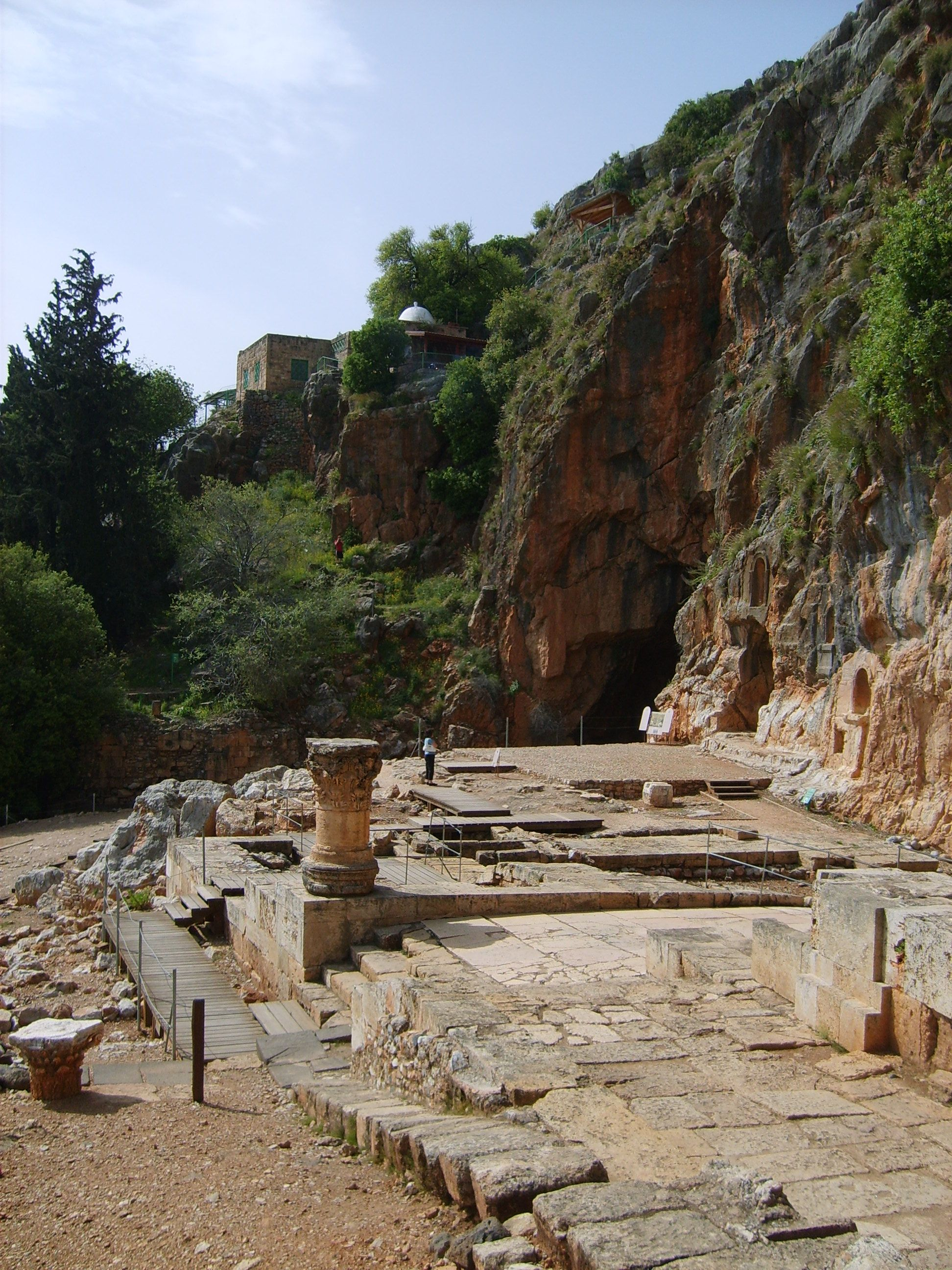 View at the remnants of the Tempel of Pan with Pan's cave at the background. The building at the slope of the cliff is the grave of Nebi Khader.